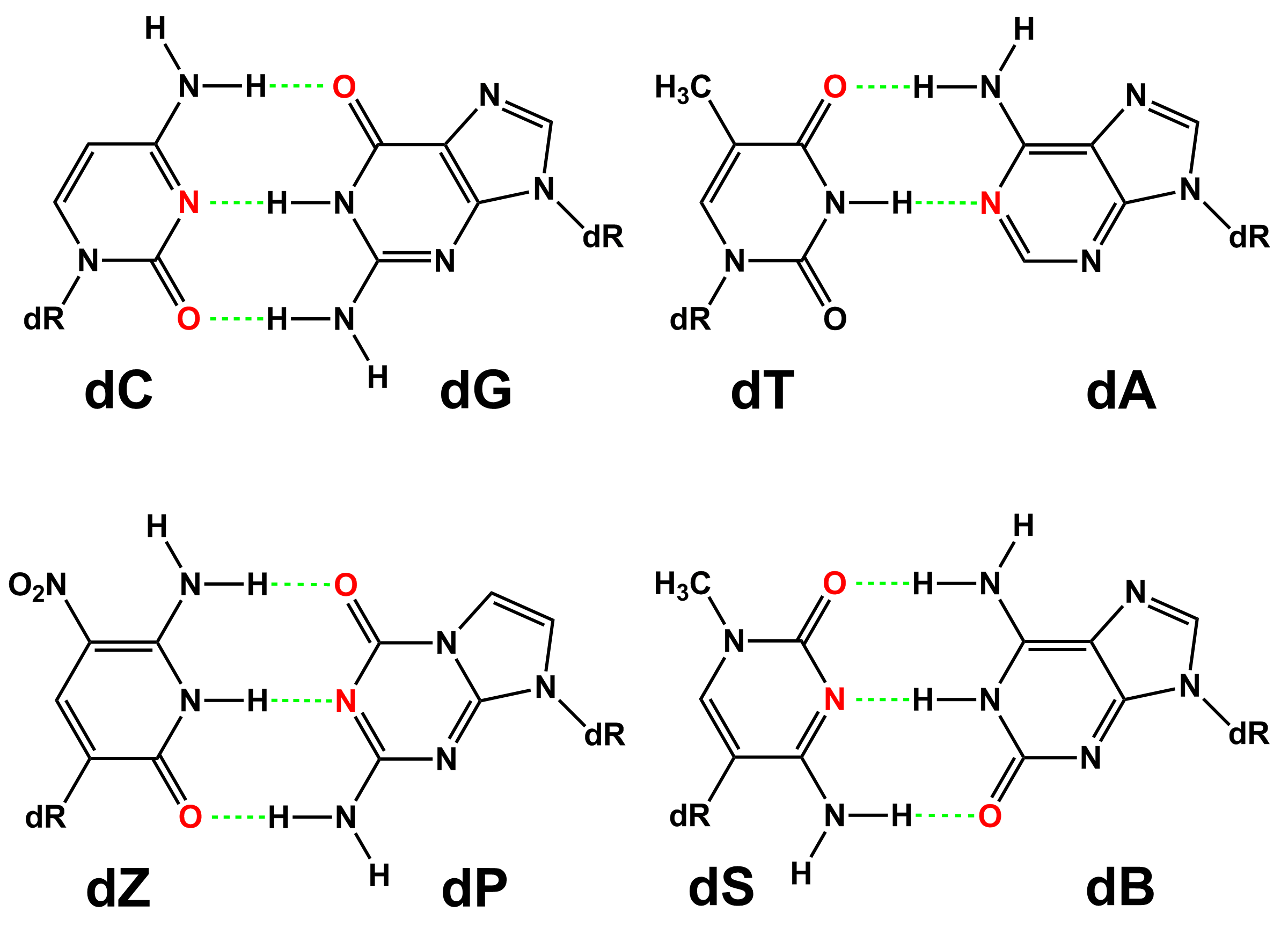 Hachimoji DNA hydrogen bonds are depicted as dashed green lines, with acceptor atoms shown in red. Nucleobase Z is 6-amino-5-nitropyridin-2-ol, P is 5-aza-7-deazaguanine, S in dS is 1-methylcytosine and B is isoguanine.